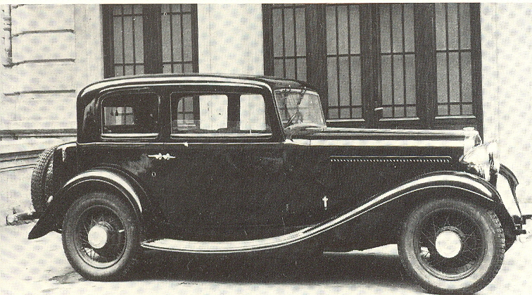 Fiat 522 S Sport Sedan (1932)